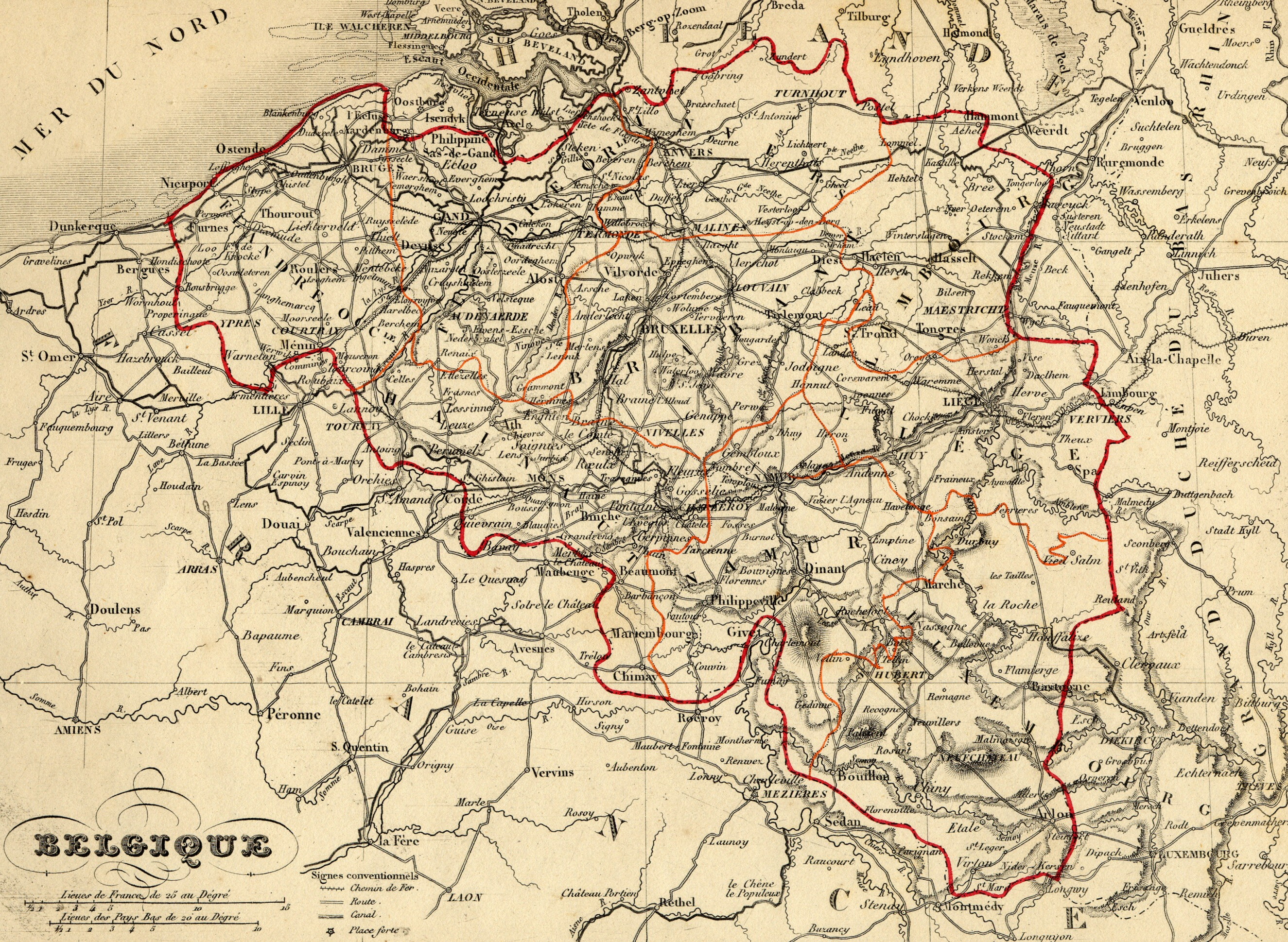 Map of Belgium (wp-EN) with french names made by Alexandre Vuillemin in 1843 extracted from his “Atlas universel de géographie ancienne et moderne à l'usage des pensionnats”.